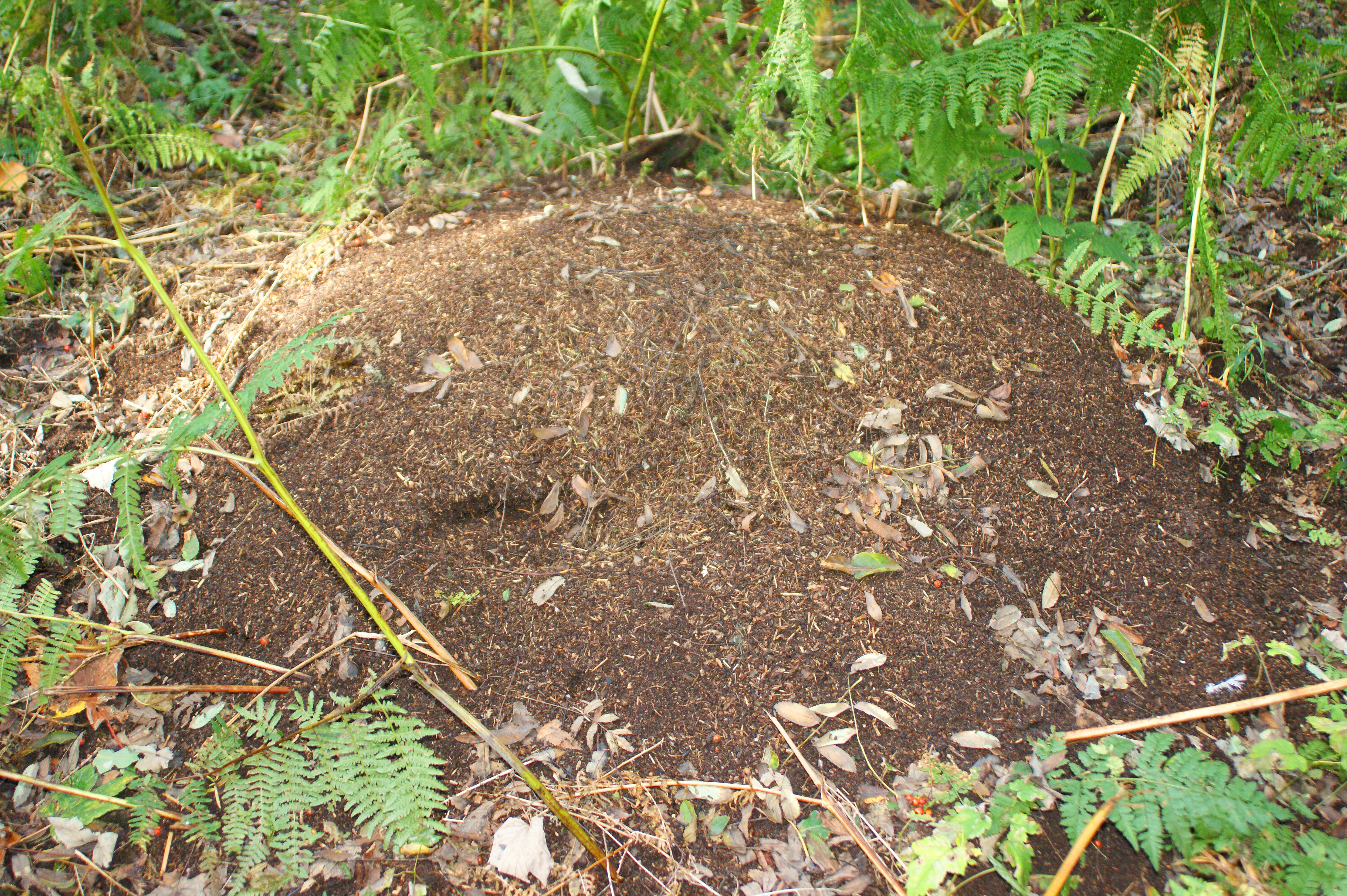 Formicary - anthill - Formica exsecta near the baltic sea between Kappeln and Flensburg (Germany)